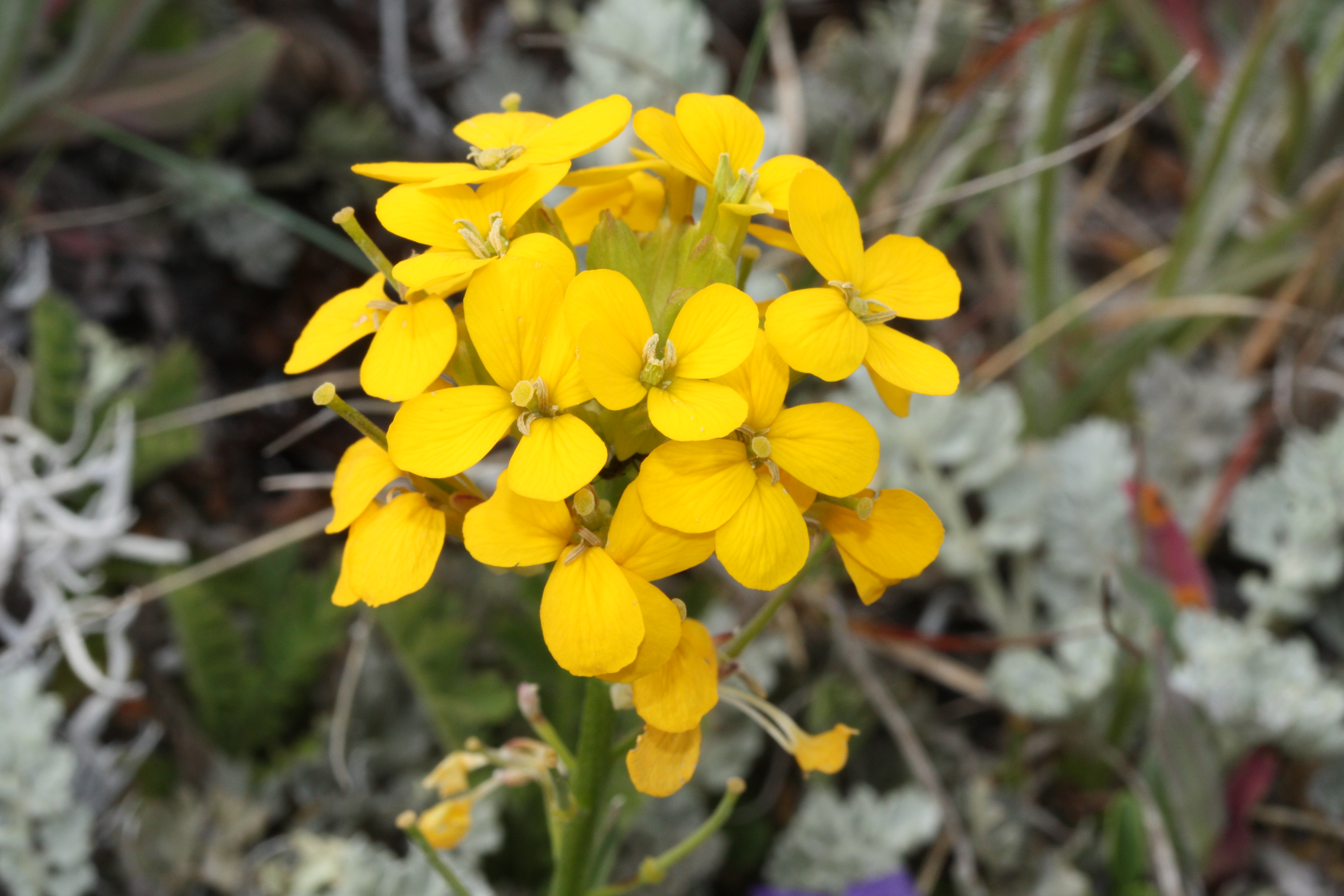 Rough Wallflower, Prairie Rocket